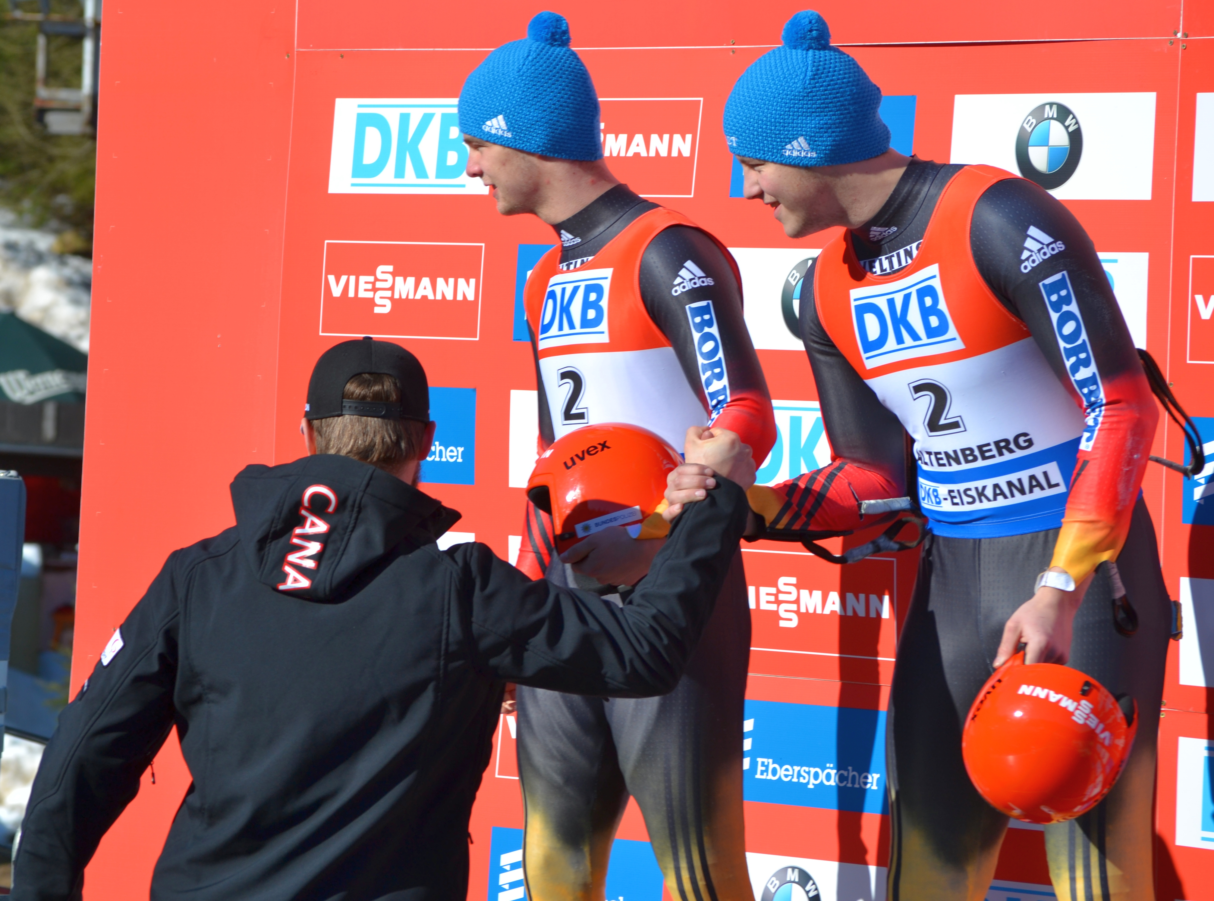 Luge world cup race season 2014/15 in Altenberg/Germany, 19th to 22nd Februar 2015. Day 2: Nations cup races.